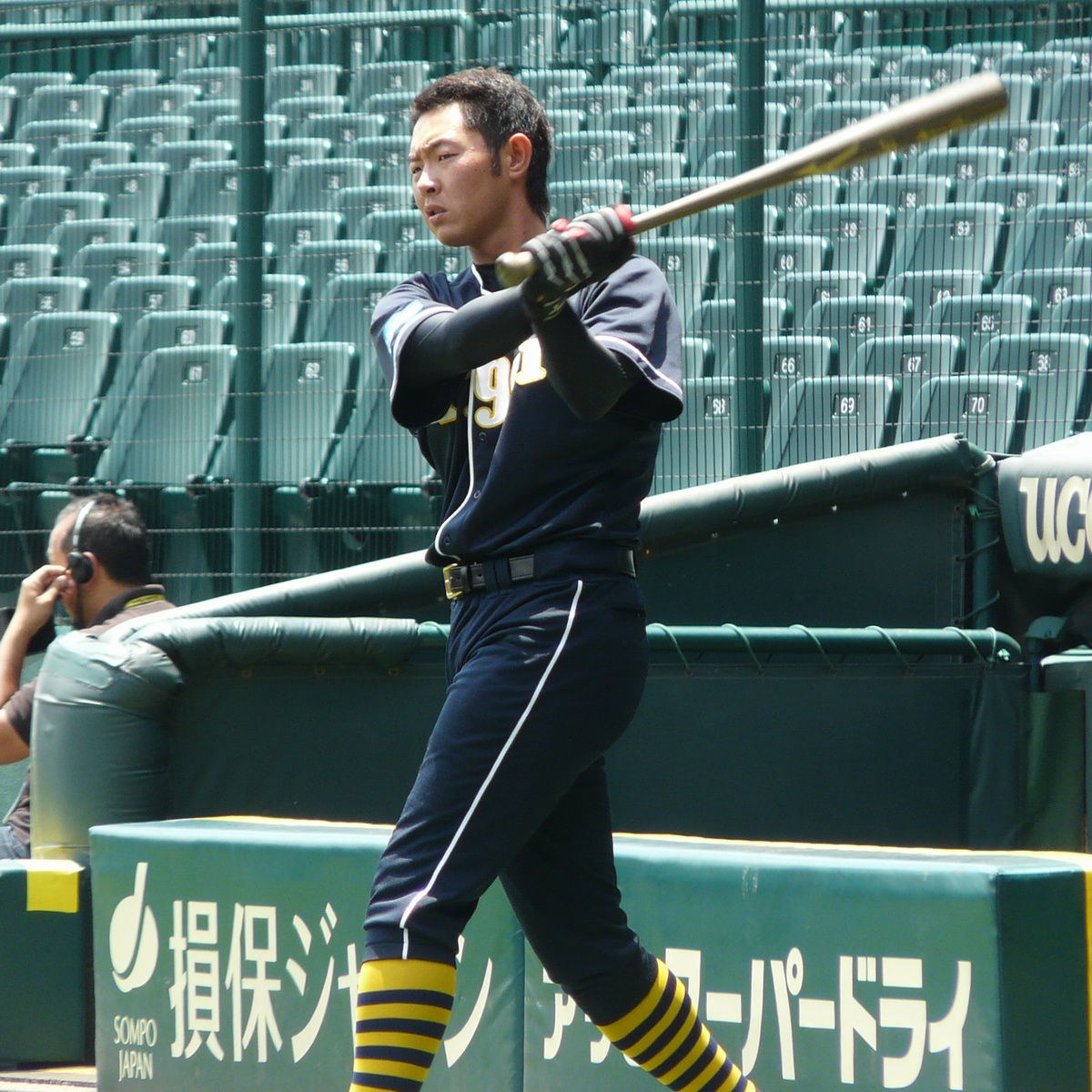 Haruki Kurose, infielder of the Hanshin Tigers, at Hanshin Koshien Stadium.